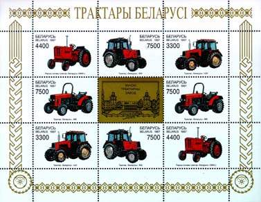 Stamp of Belarus